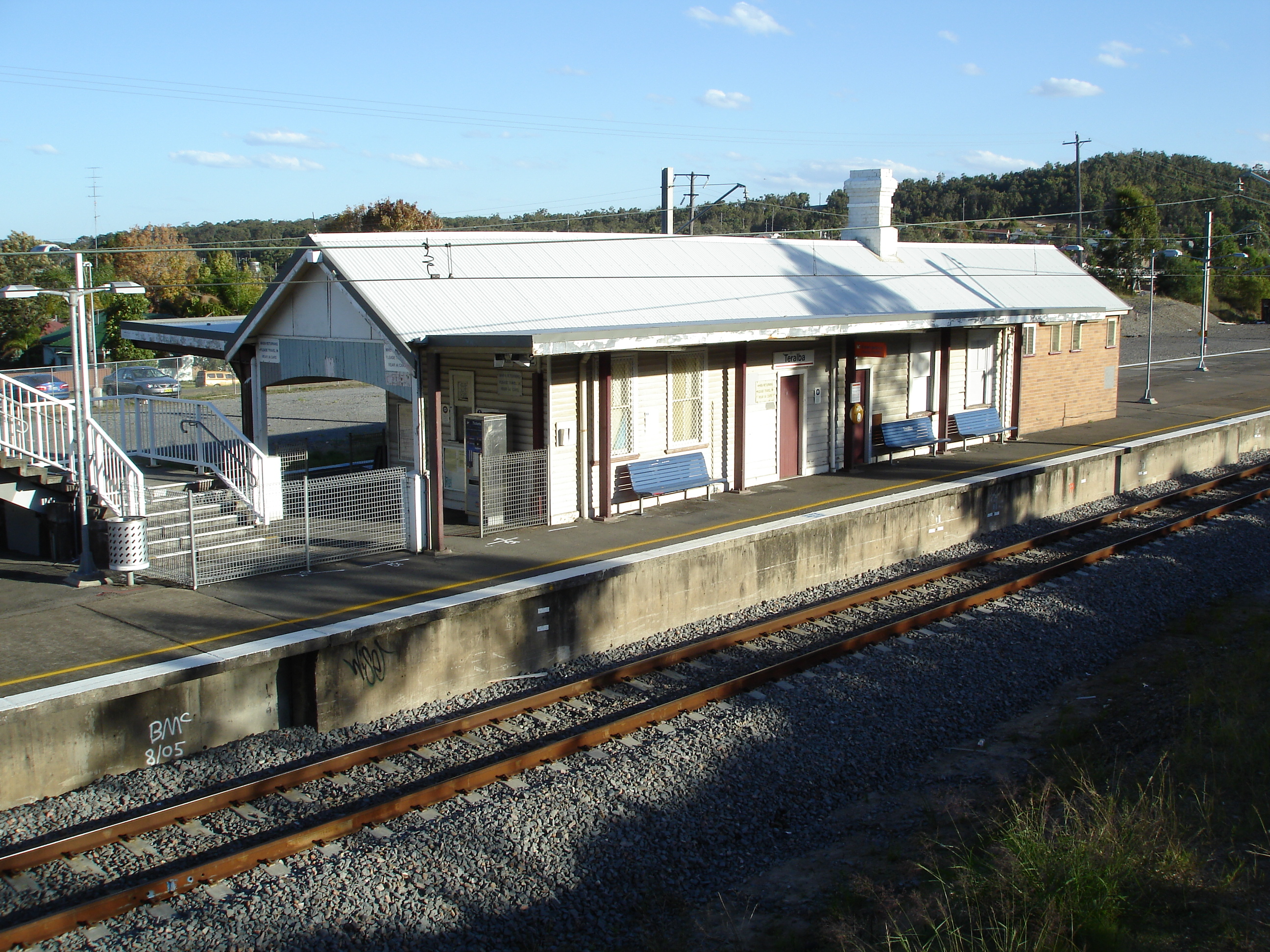 Teralba station taken by MrTwig